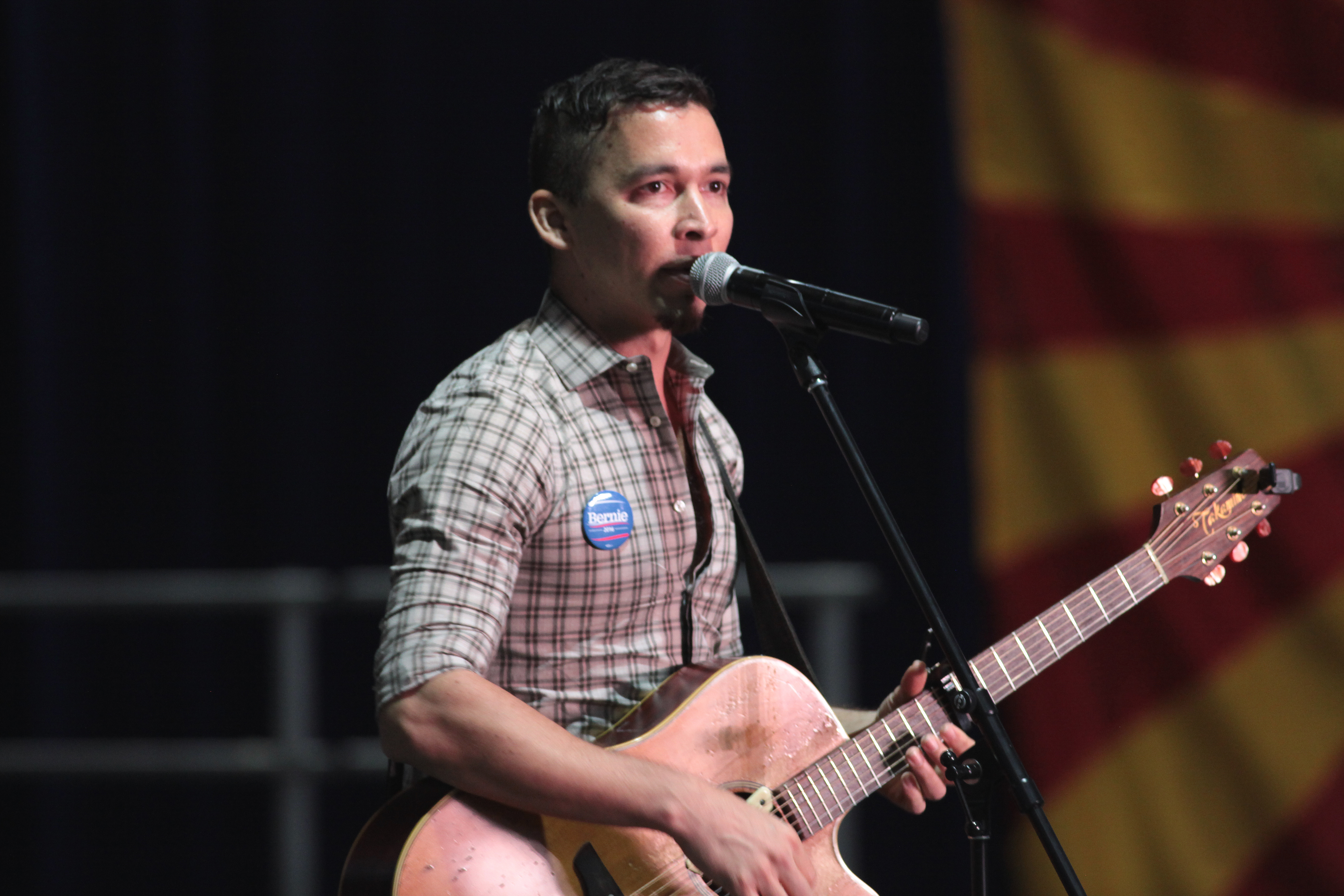 Makana performing for supporters of U.S. Senator Bernie Sanders at a campaign rally at the Phoenix Convention Center in Phoenix, Arizona.